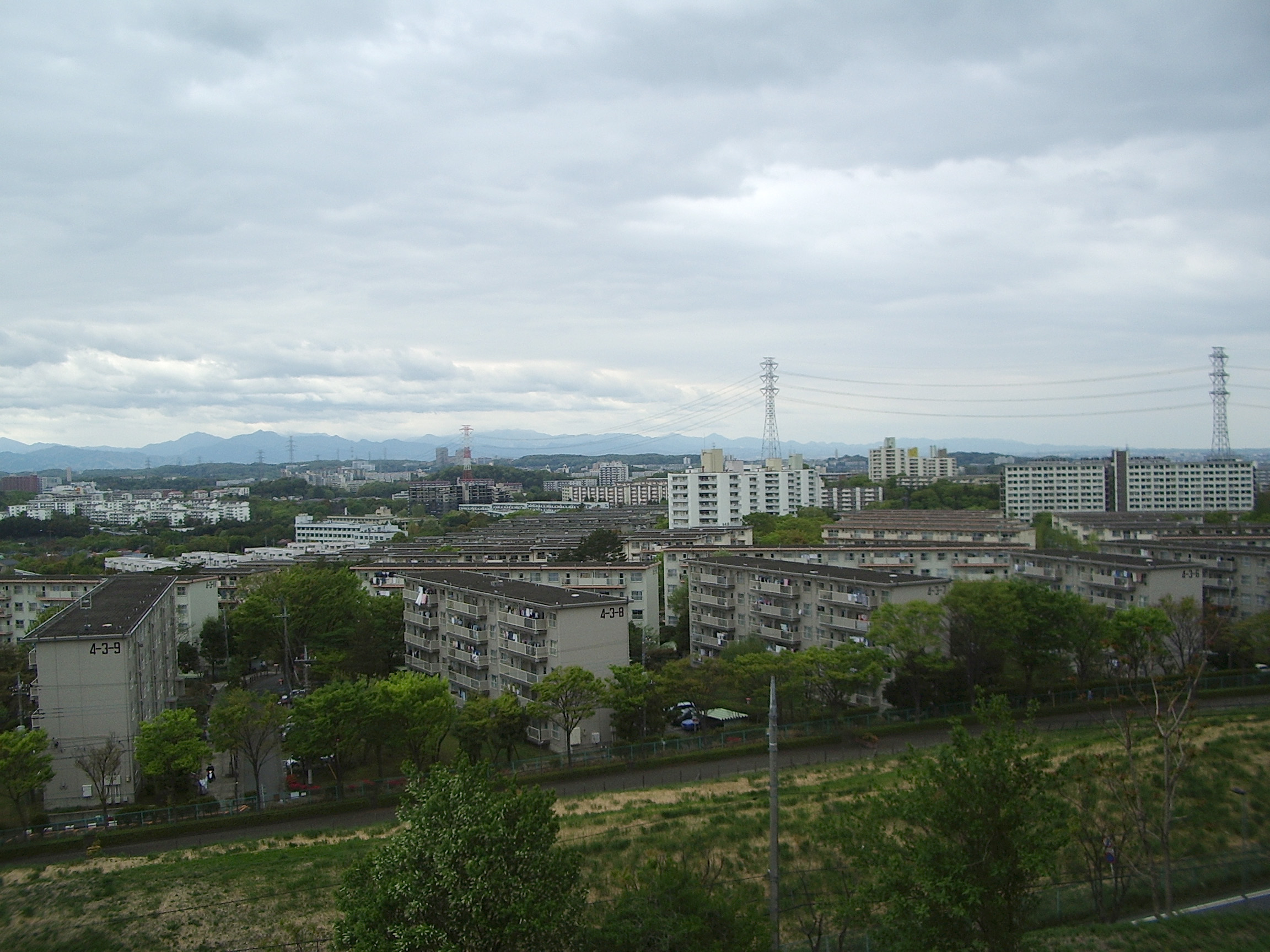 Onekansen highway, Suwa, Tama, Tokyo